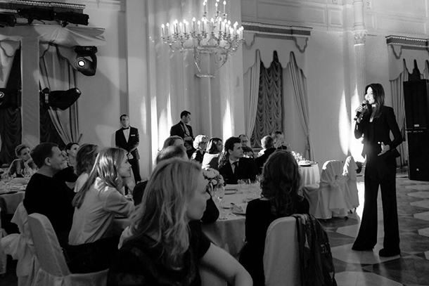 Carla Bruni, Dmitry Shumkov, Natalya Vodianova